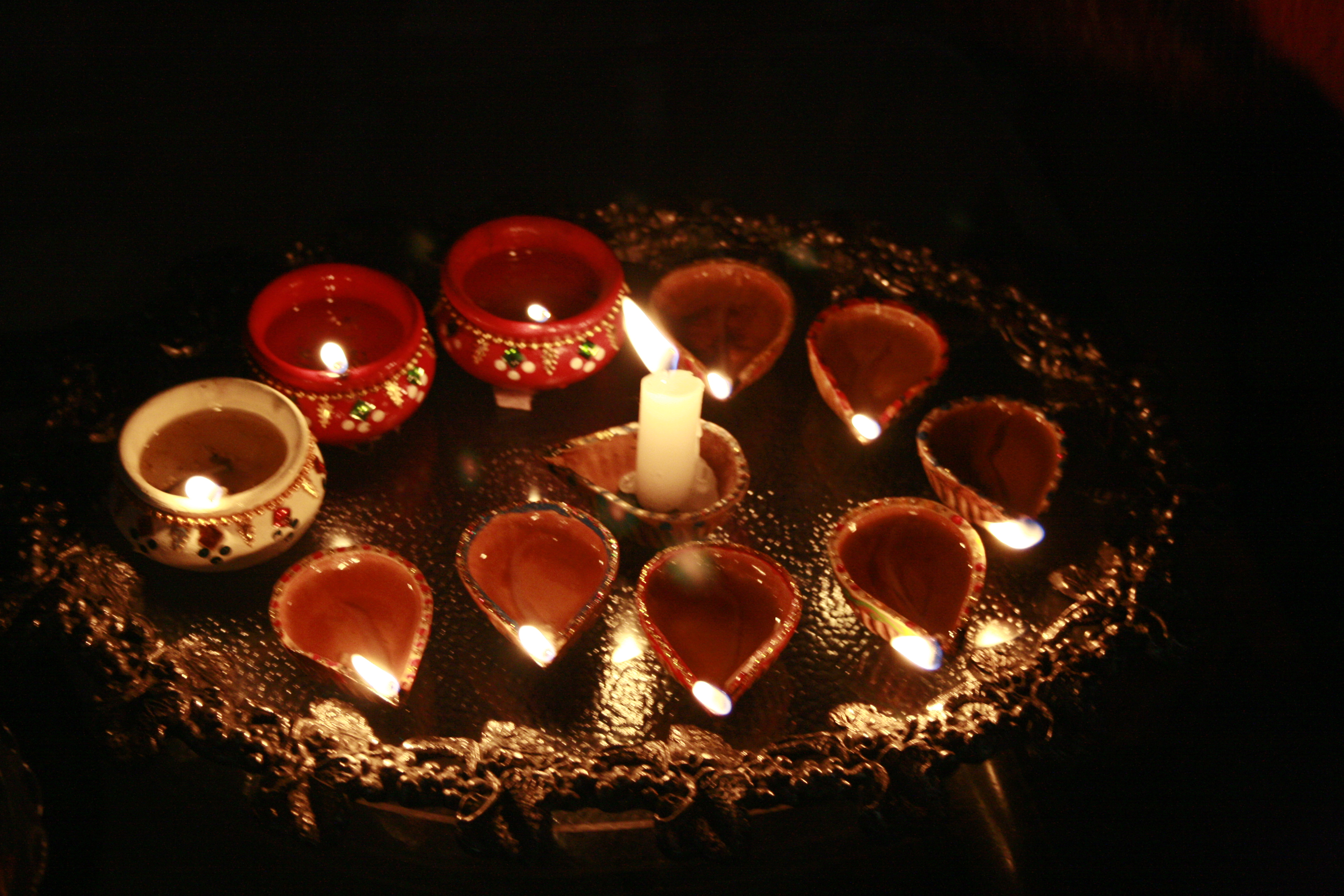 Diwali lamps